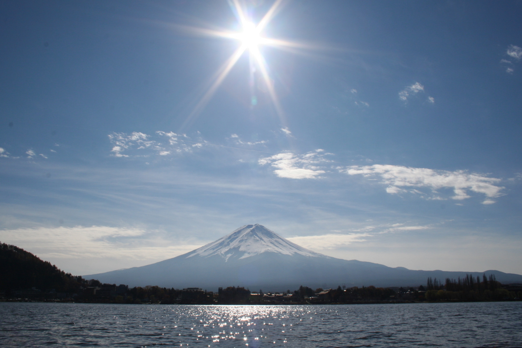 Mount Fuji -A view from the Lake Kawaguchiko on a bright sunny day.